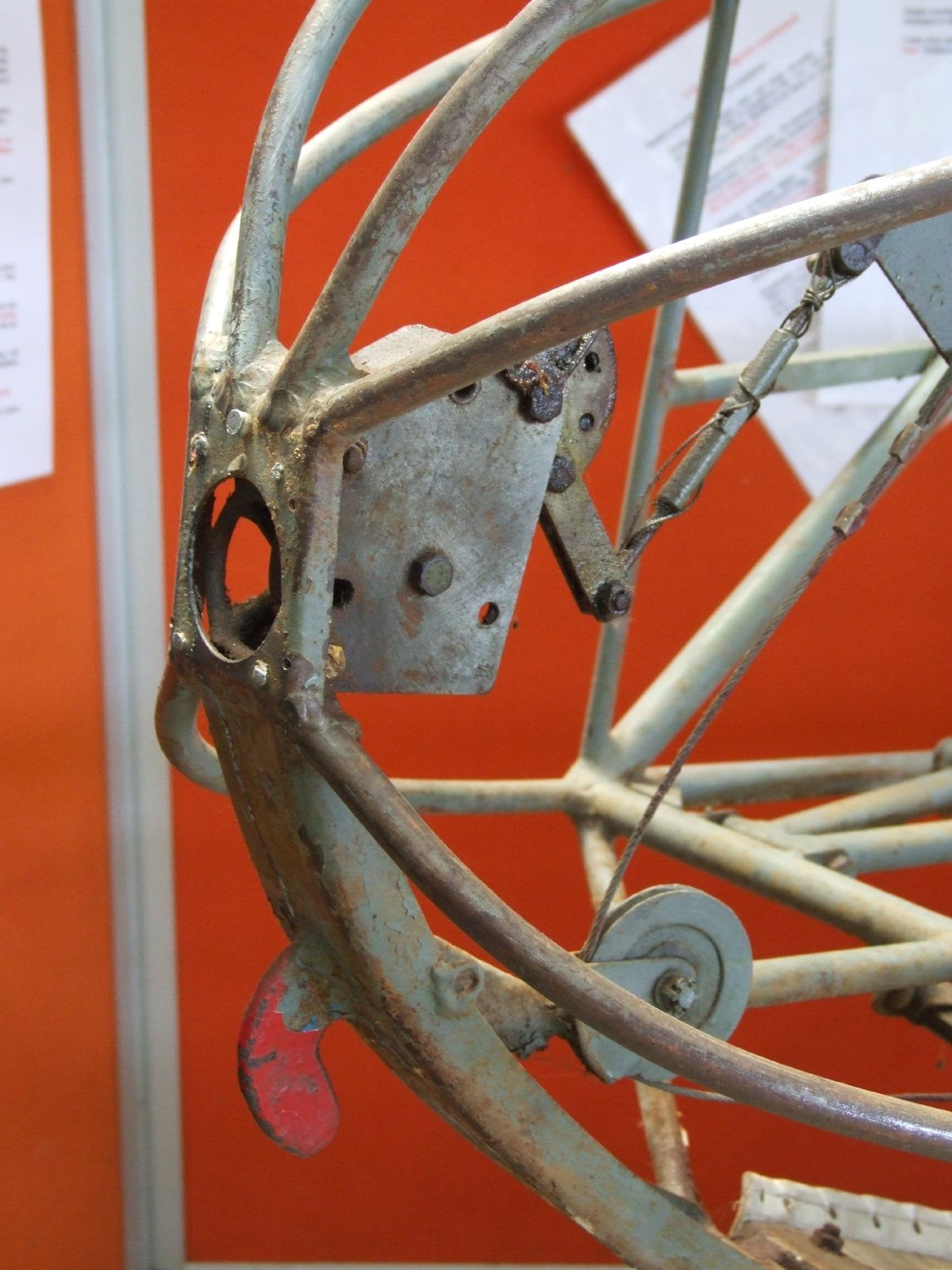 Of an old 1950s German built glider currently being restored in a hanger at Shoreham airfield.